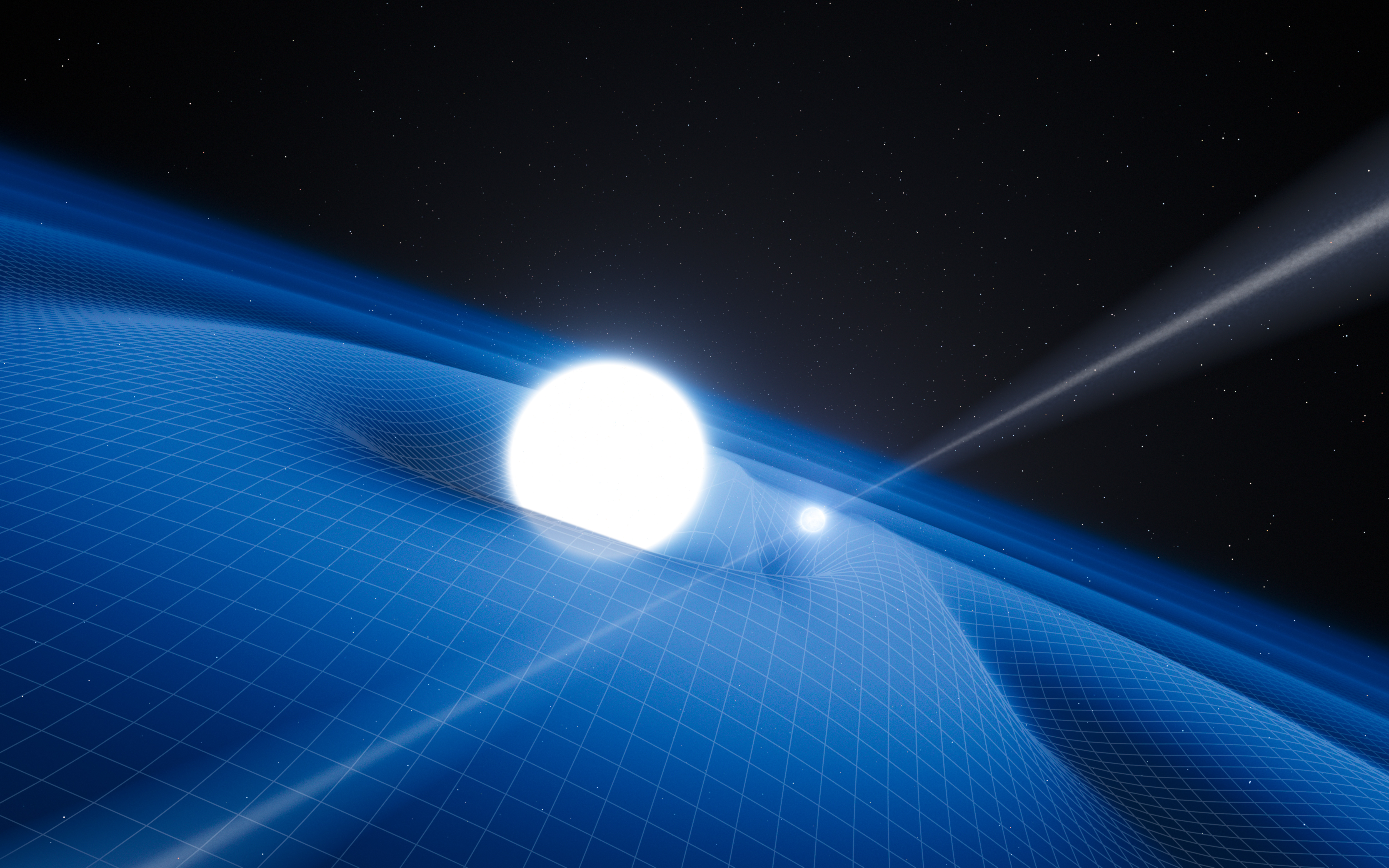 This artist’s impression shows the exotic double object that consists of a tiny, but very heavy neutron star that spins 25 times each second, orbited every two and a half hours by a white dwarf star. The neutron star is a pulsar named PSR J0348+0432 that is giving off radio waves that can be picked up on Earth by radio telescopes. Although this unusual pair is very interesting in its own right, it is also a unique laboratory for testing the limits of physical theories. This system is radiating gravitational radiation, ripples in spacetime. Although these waves (shown as the grid in this picture) cannot be yet detected directly by astronomers on Earth they can be sensed indirectly by measuring the change in the orbit of the system as it loses energy. As the pulsar is so small the relative sizes of the two objects are not drawn to scale.